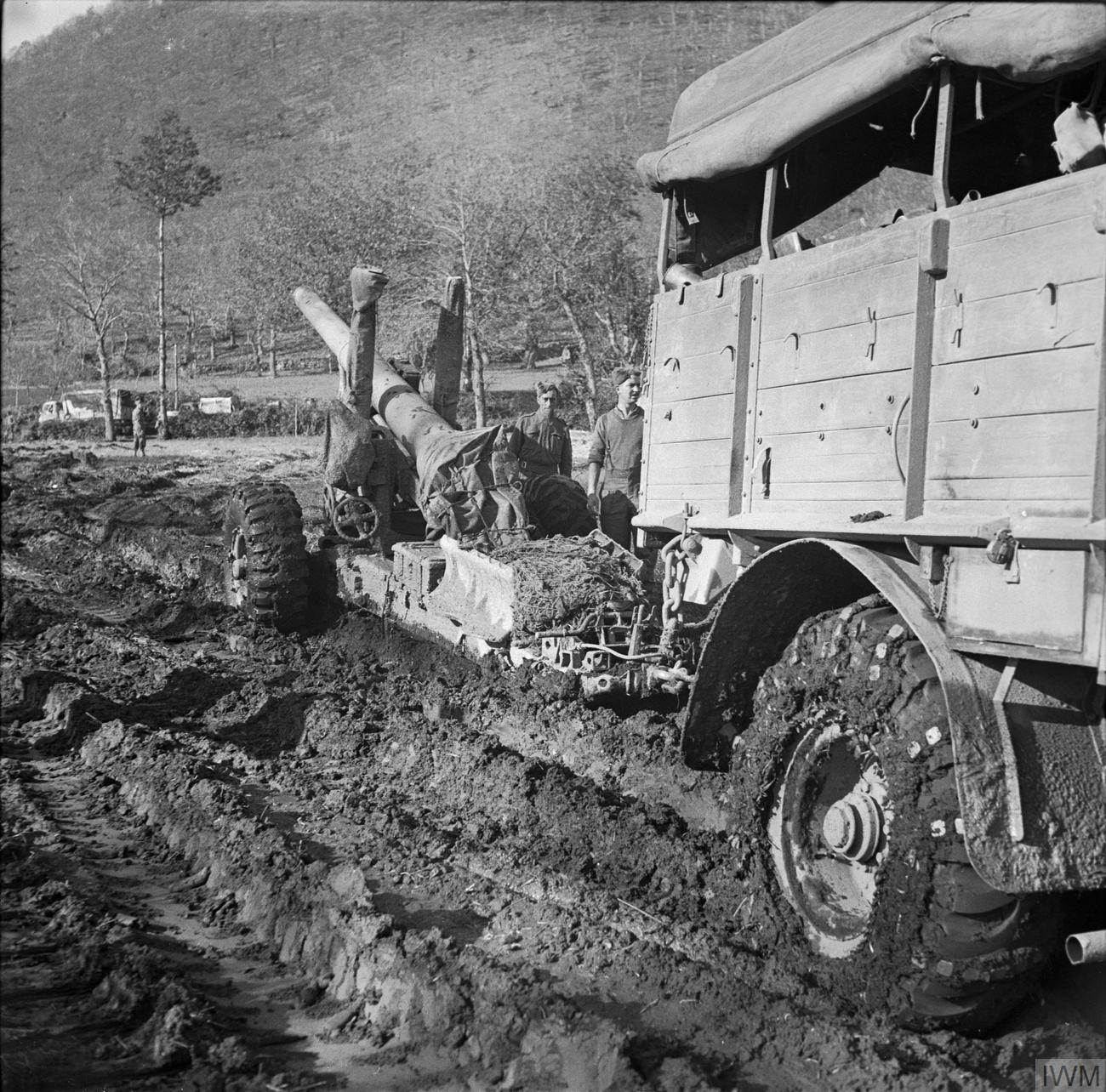 Monte Camino November - December 1943: Men of 99 Medium Battery, 74 Medium Regiment, Royal Artillery struggle to bring a 5.5 inch medium field gun into action through thick mud in the Camino area.